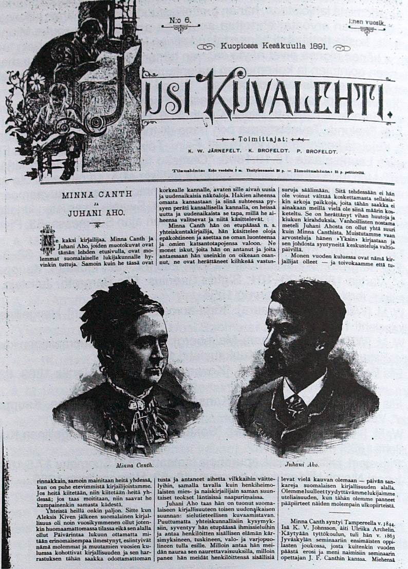 One of the first uses of photographs in Finnish newspapers. Uusi Kuvalehti, June 1891, published in Kuopio. In picture: Kuopio-based authors Minna Canth and Juhani Aho.